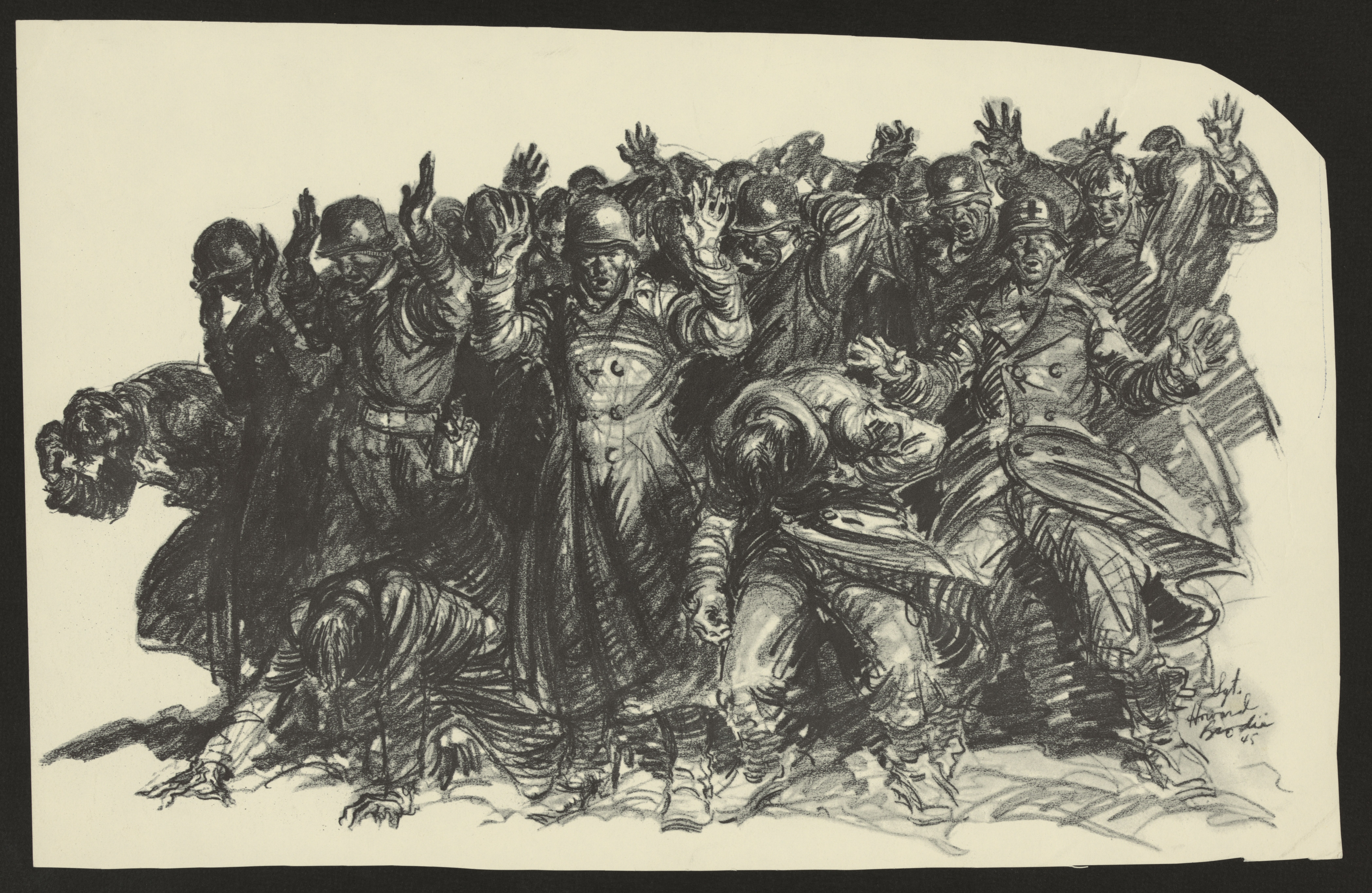 Title: Malmedy Abstract/medium: 1 print : photomechanical.